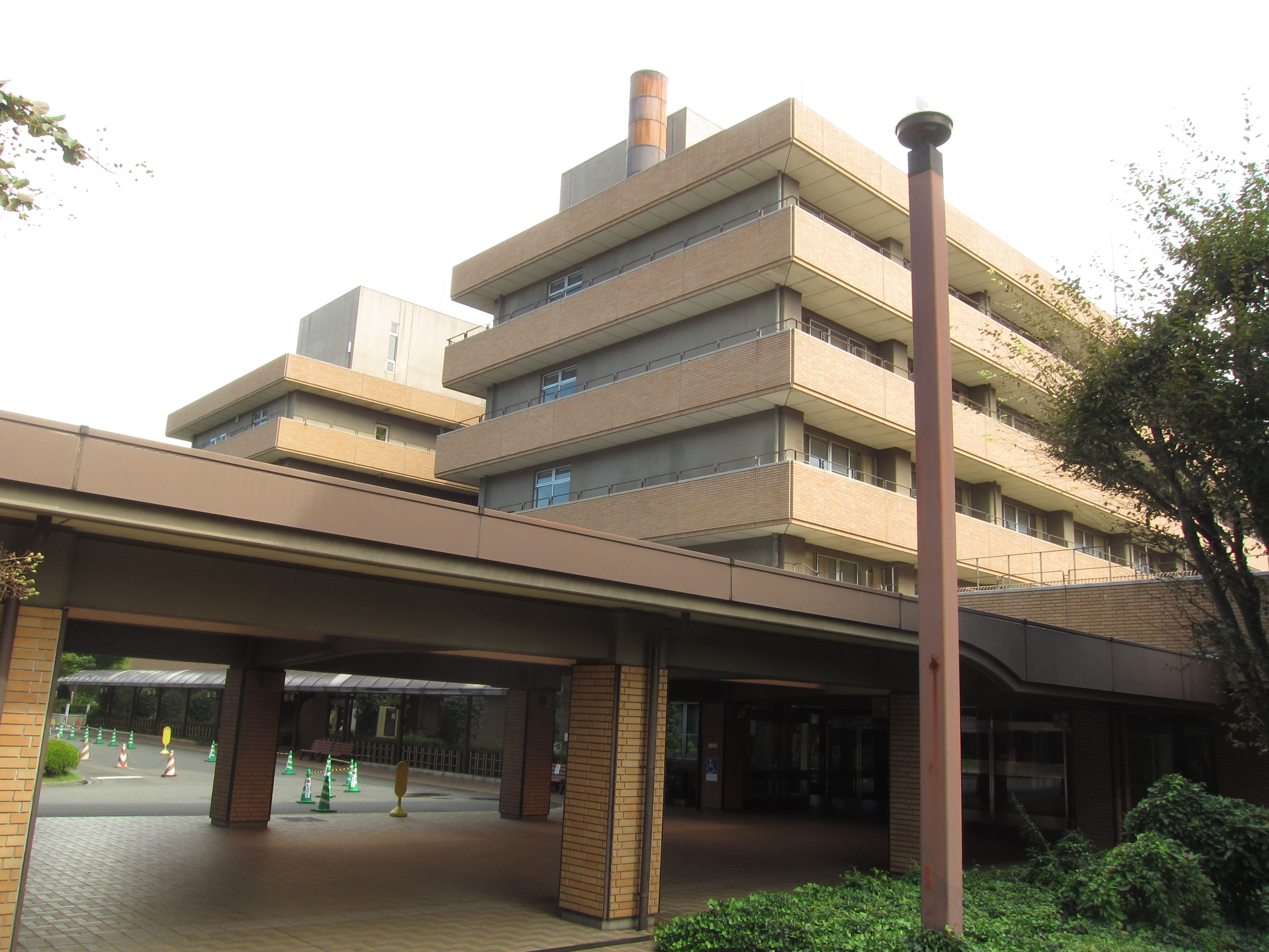 St. Marianna University School of Medicine, Yokohama City Seibu Hospital